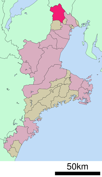 Location of Inabe in Mie Prefecture